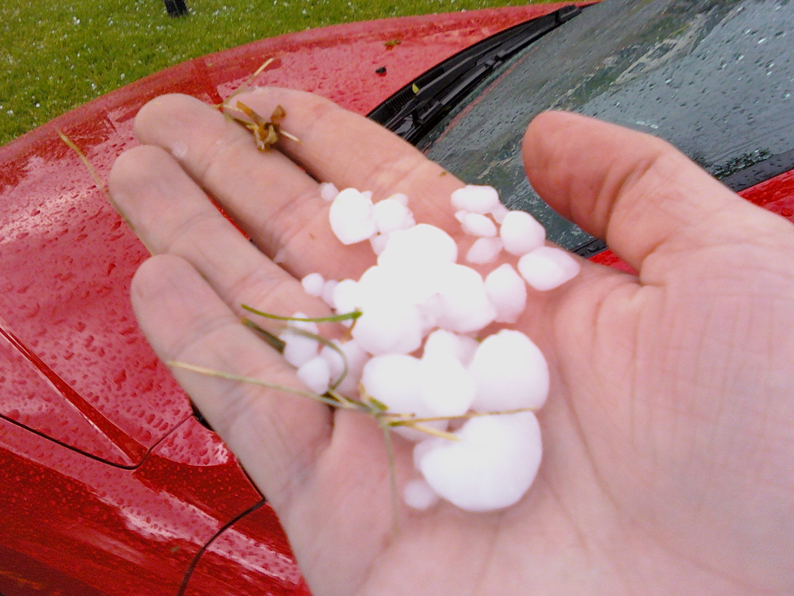 Hail from a severe thunderstorm in Bozeman, MT